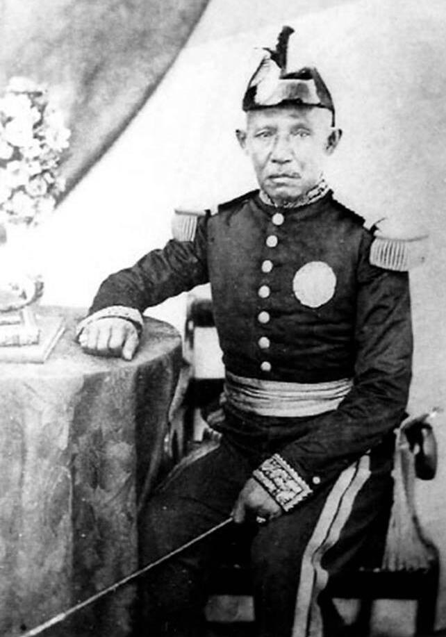 Pinklao, The Second King of Siam.